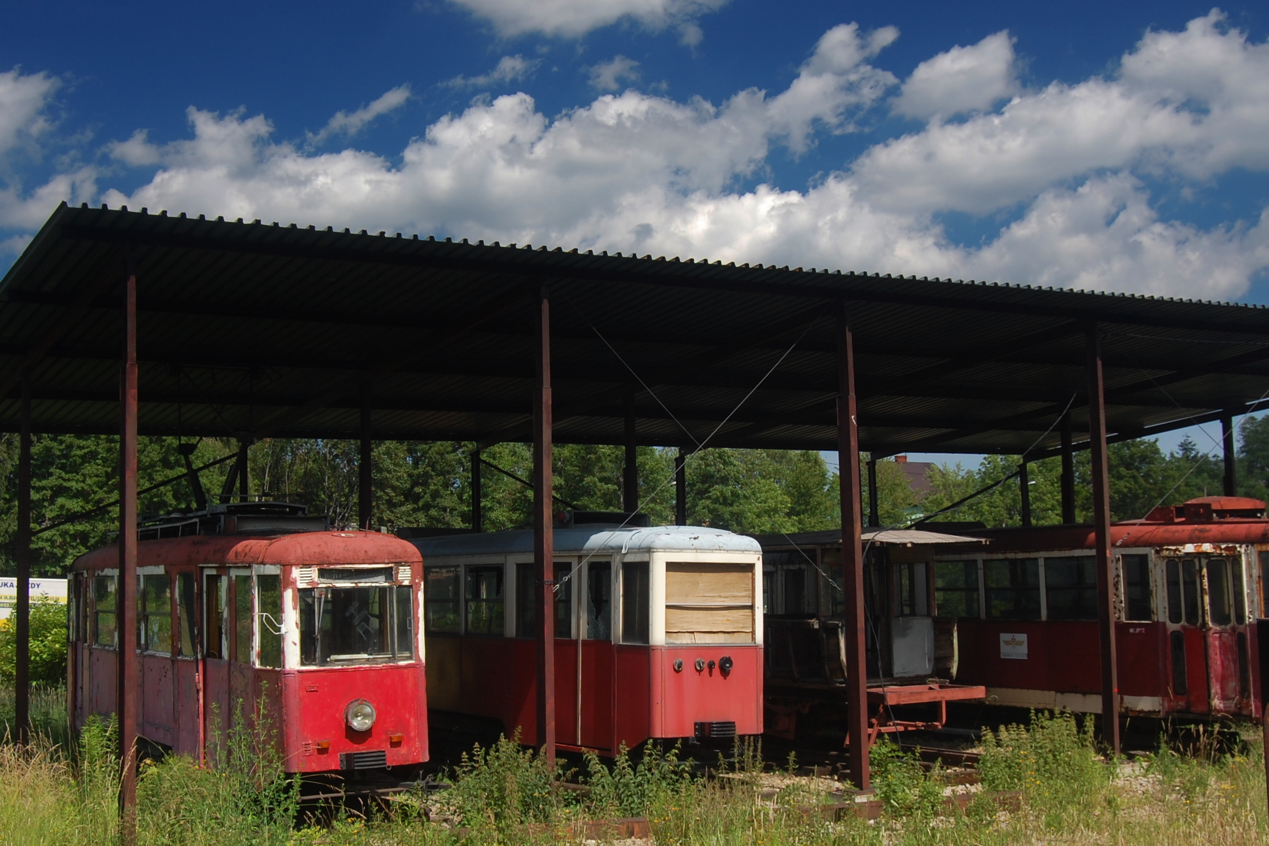 Old trams in bus depot in Bielsko-Biała (Poland)